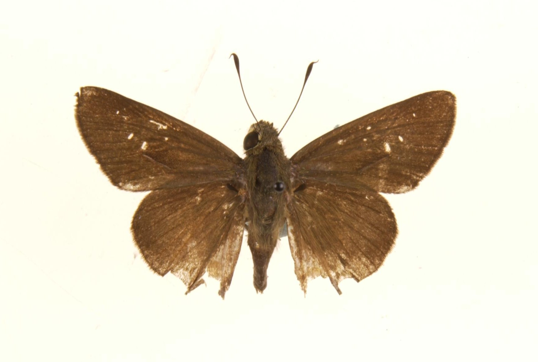 P thrax